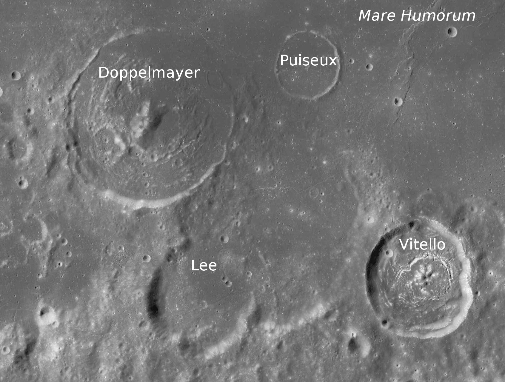 Craters Doppelmayer, Puiseux, Lee and Vitello (detail of LRO - WAC global moon mosaic; Mercator projection)